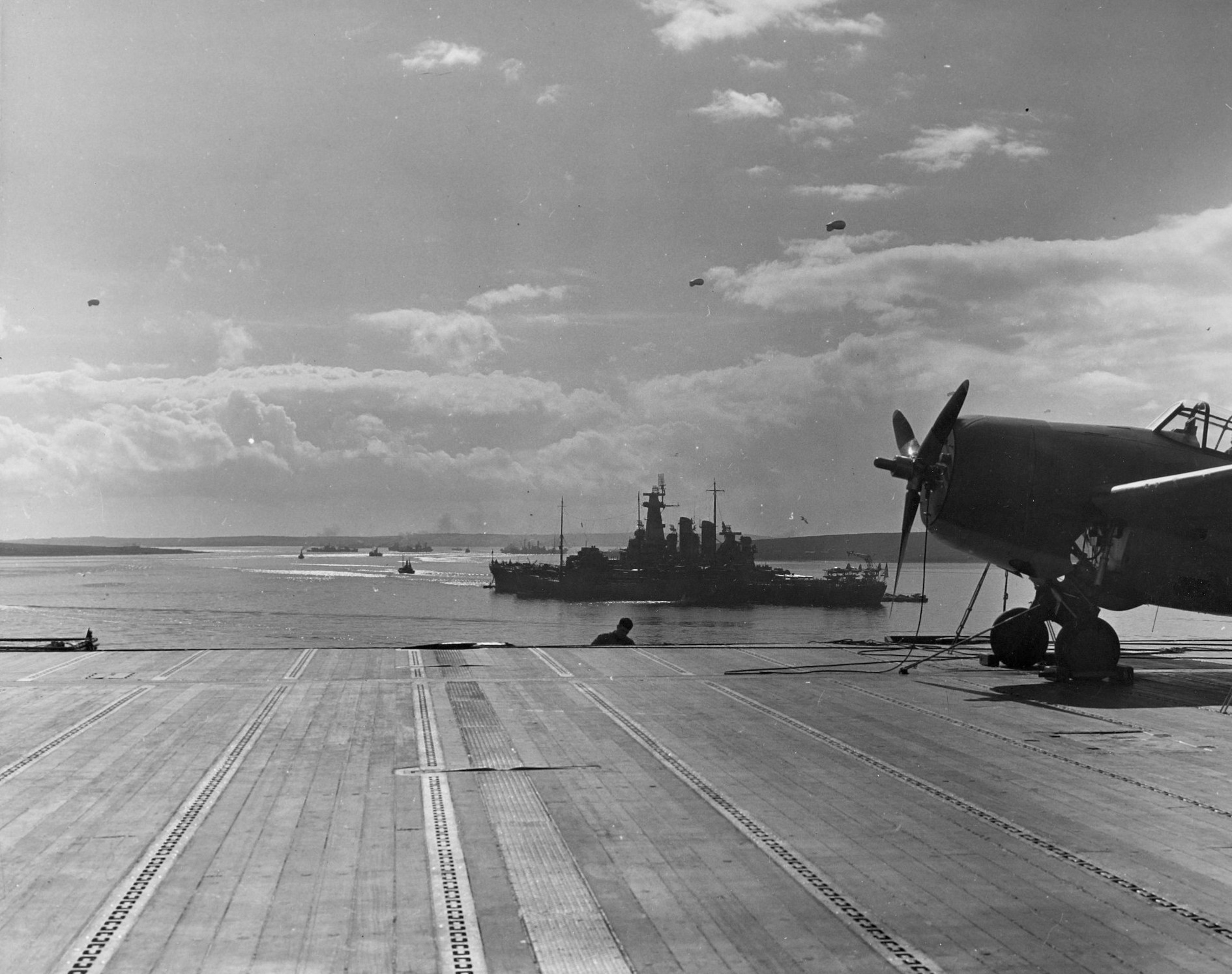 The U.S. Navy battleship USS Washington (BB-56) at anchor at Scapa Flow, Scotland (UK), as seen from the flight deck of the aircraft carrier USS Wasp (CV-7), 4 April 1942. Note the barrage balloons overhead.